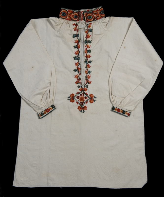 Norwegian man's shirt in cotton with coloured wool embroidery. Used ca. 1800-1840, now at Norsk Folkemuseum.